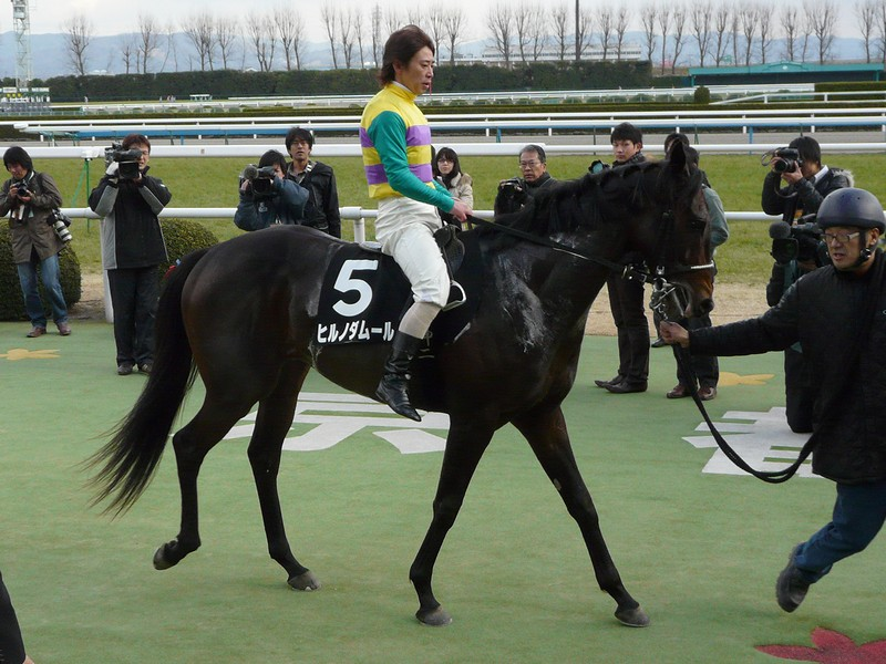 Hiruno-Damour